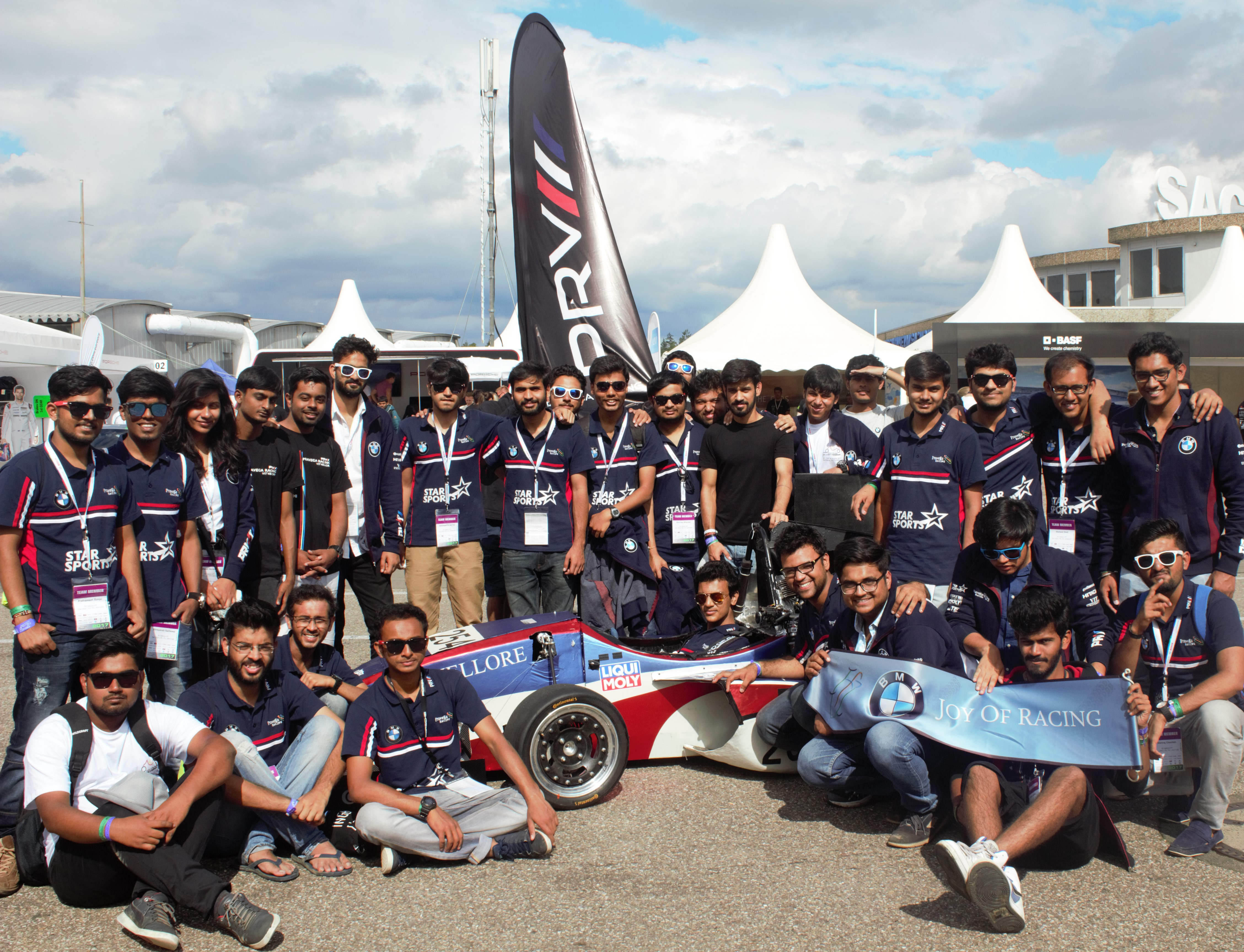 PRV17 Team Photo during FSG17